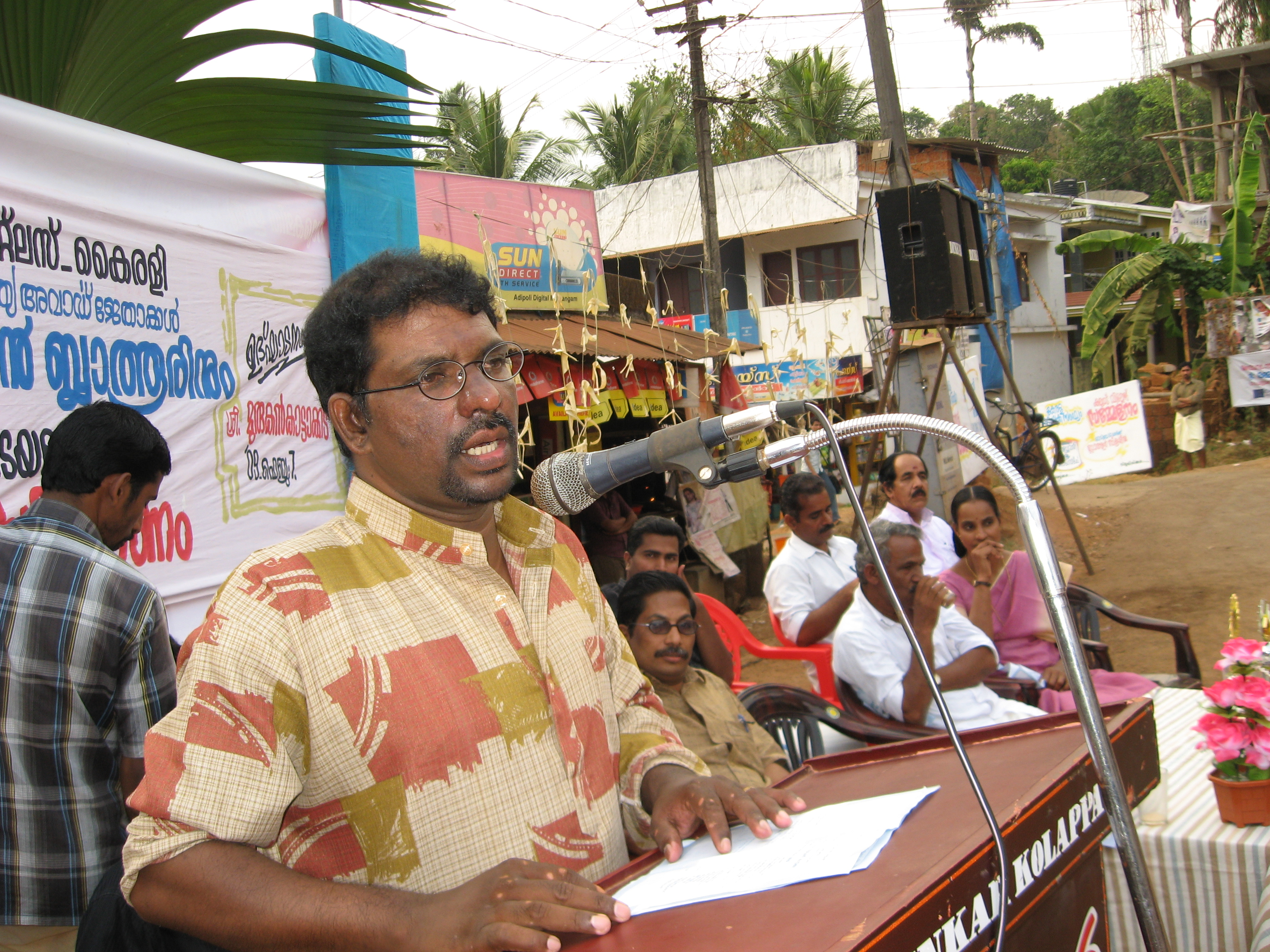 malayalam poet